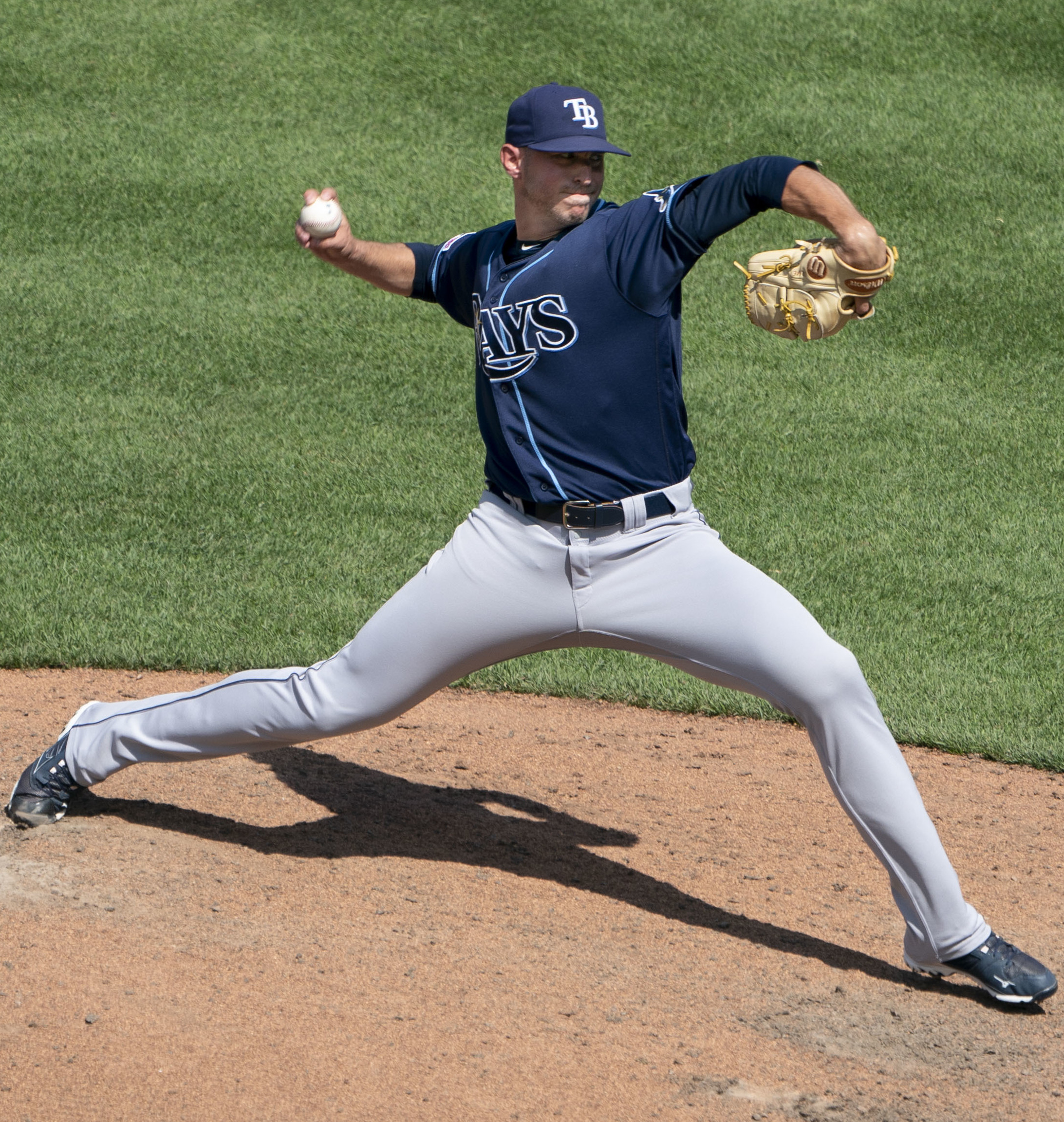 Rays at Orioles 7/14/19